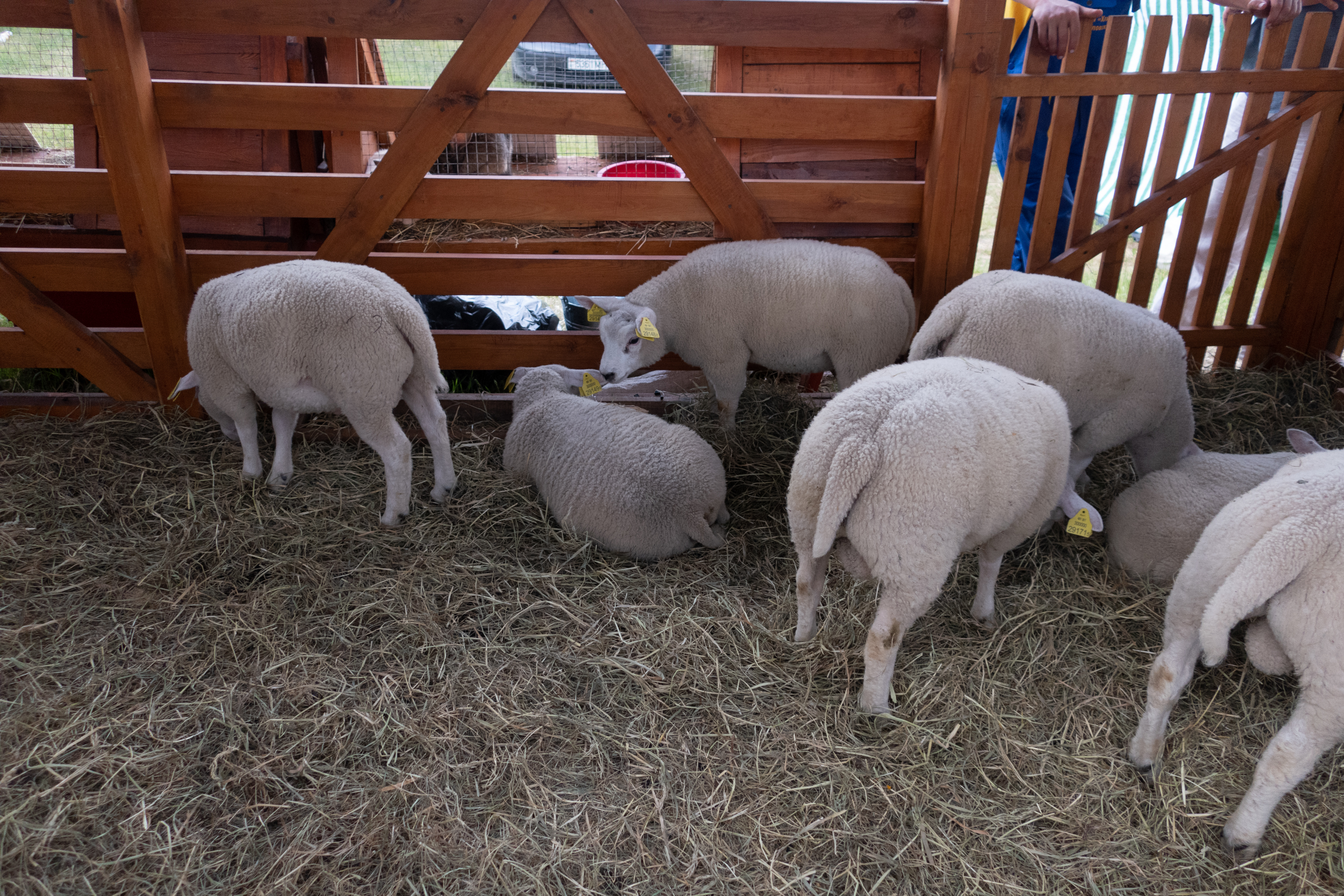 Photo taken at Belagro-2019 exhibition (Minsk district, Belarus)